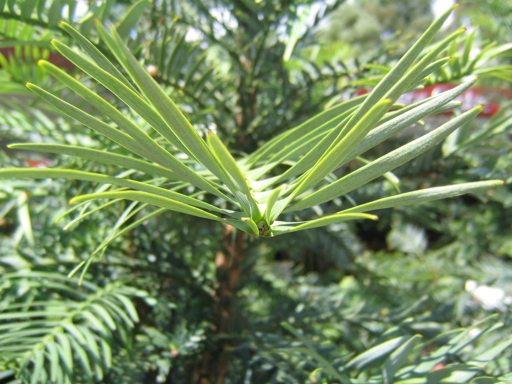 A branch of a young Wollemi Pine (approx 1 metre tall) viewed from the end, showing leaves arranged into four ranks.